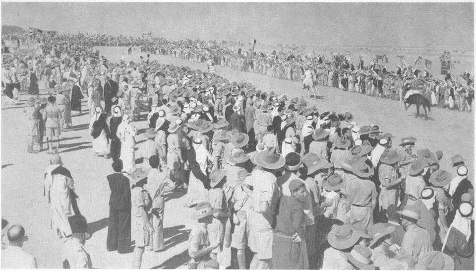 A race meeting held at Barbara, Palestine, 7th September 1940, before the 6th Division completed its concentration in Egypt (Australian War Memorial)